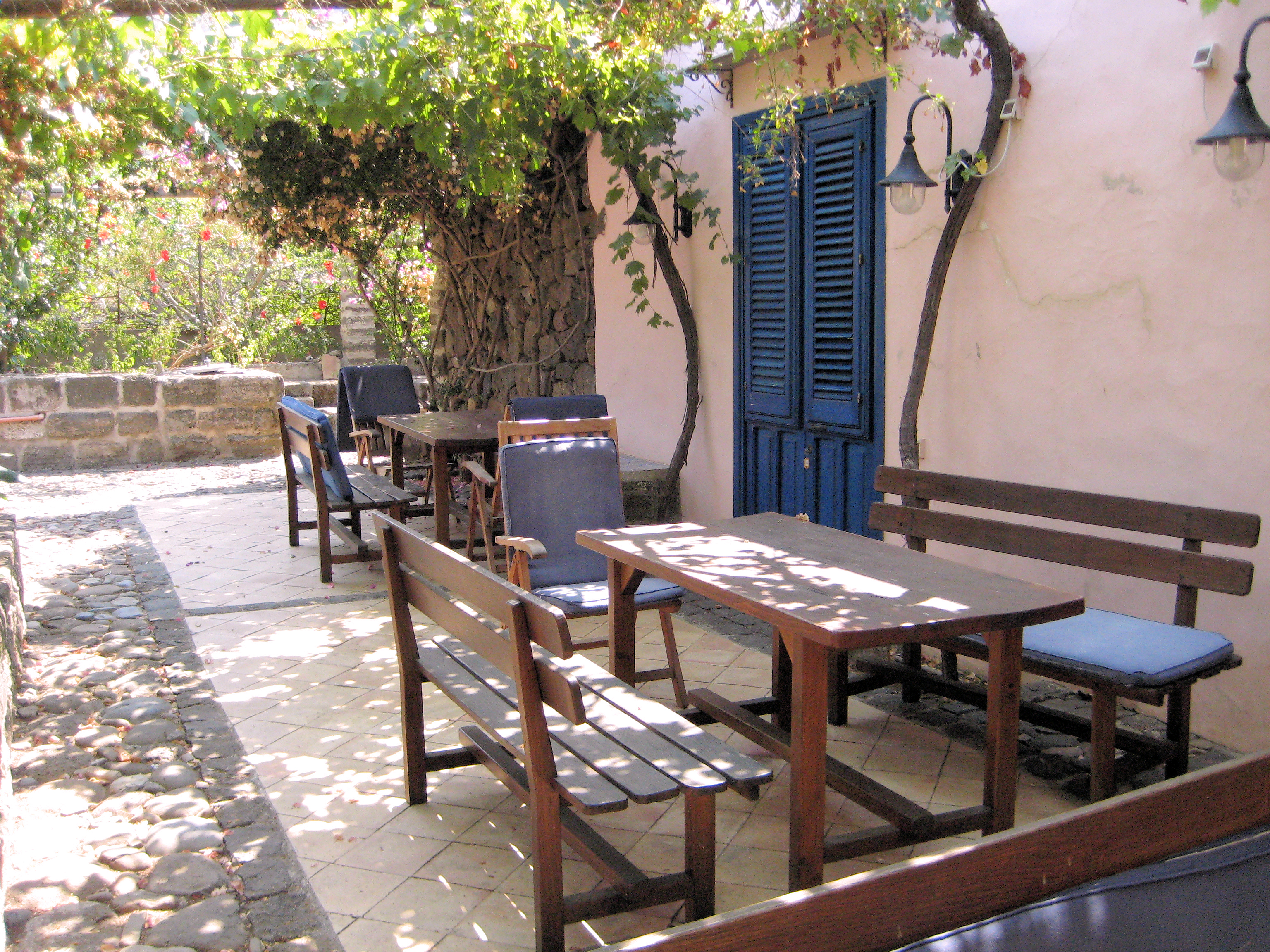 Agriturismo Hibiscus, Appartamento Plumbago, Ustica, Sicily, Italy